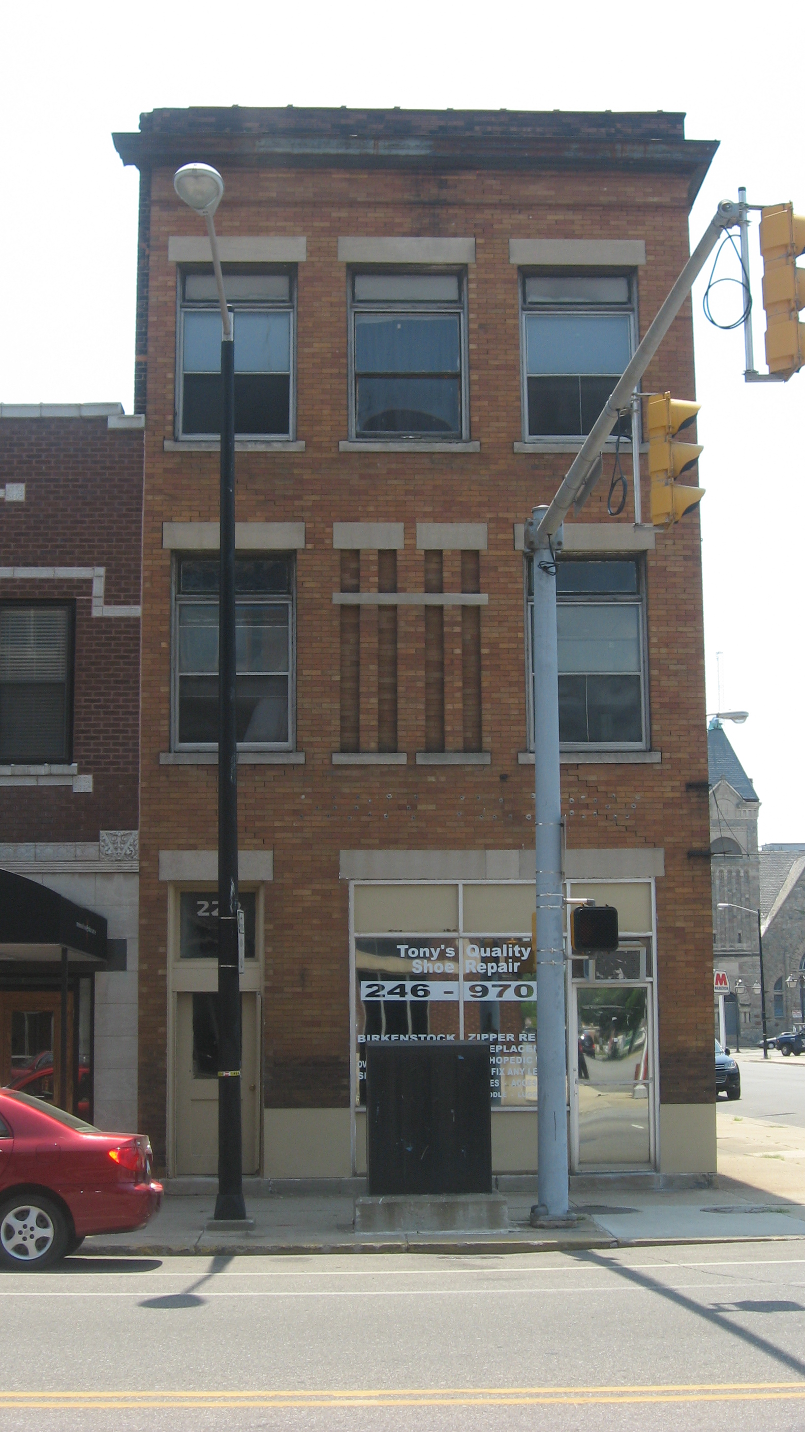 Front of the Berteling Building, located at 228 W. Colfax Avenue in South Bend, Indiana, United States. Built in 1905, it is listed on the National Register of Historic Places.